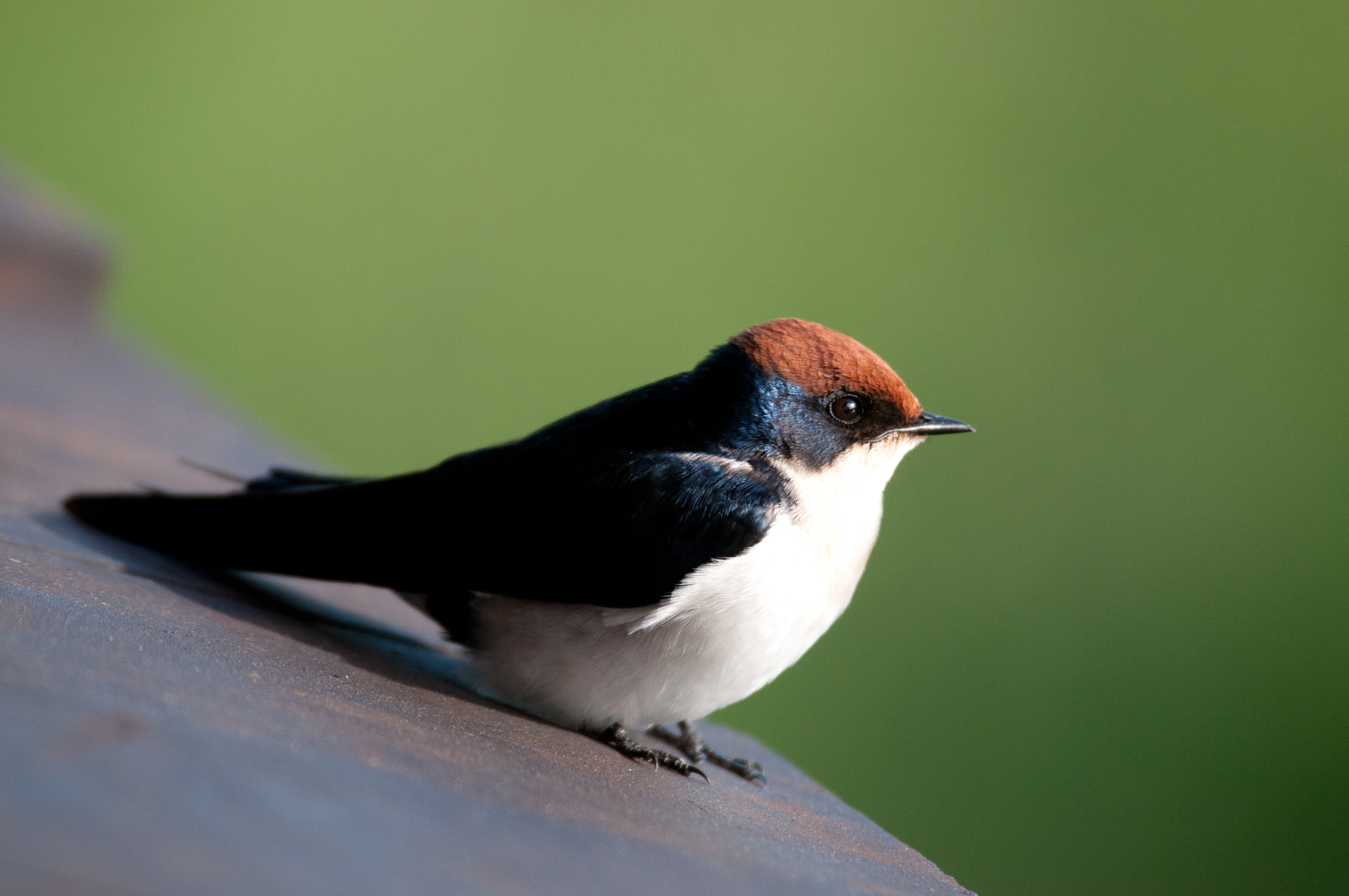 Wire-tailed Swallow Hirundo smithii smithii, Kruger National Park, South Africa